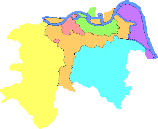 Subdivision of Zhenjiang